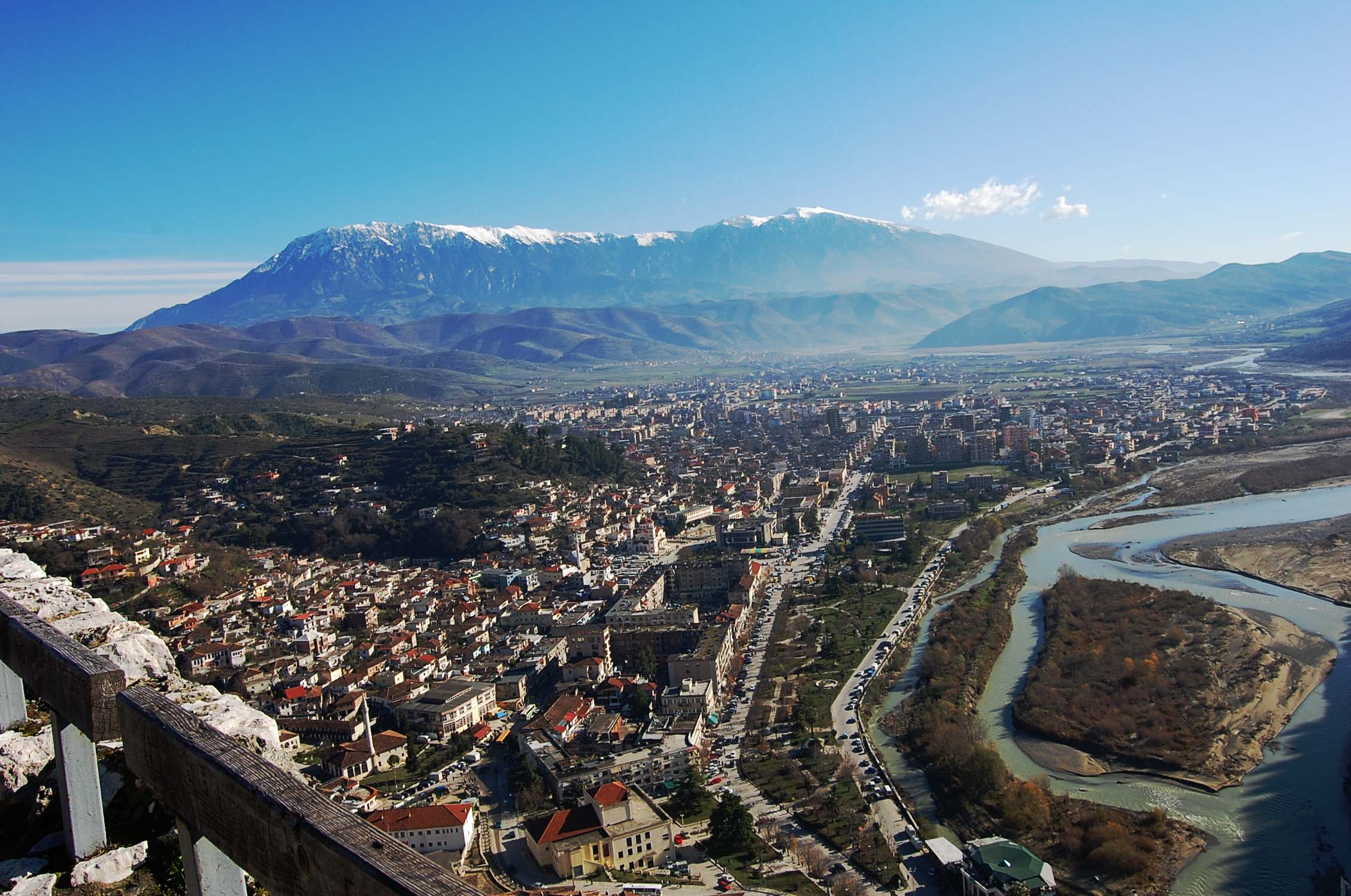 Berat, Albania with Mt Tomorri in the background